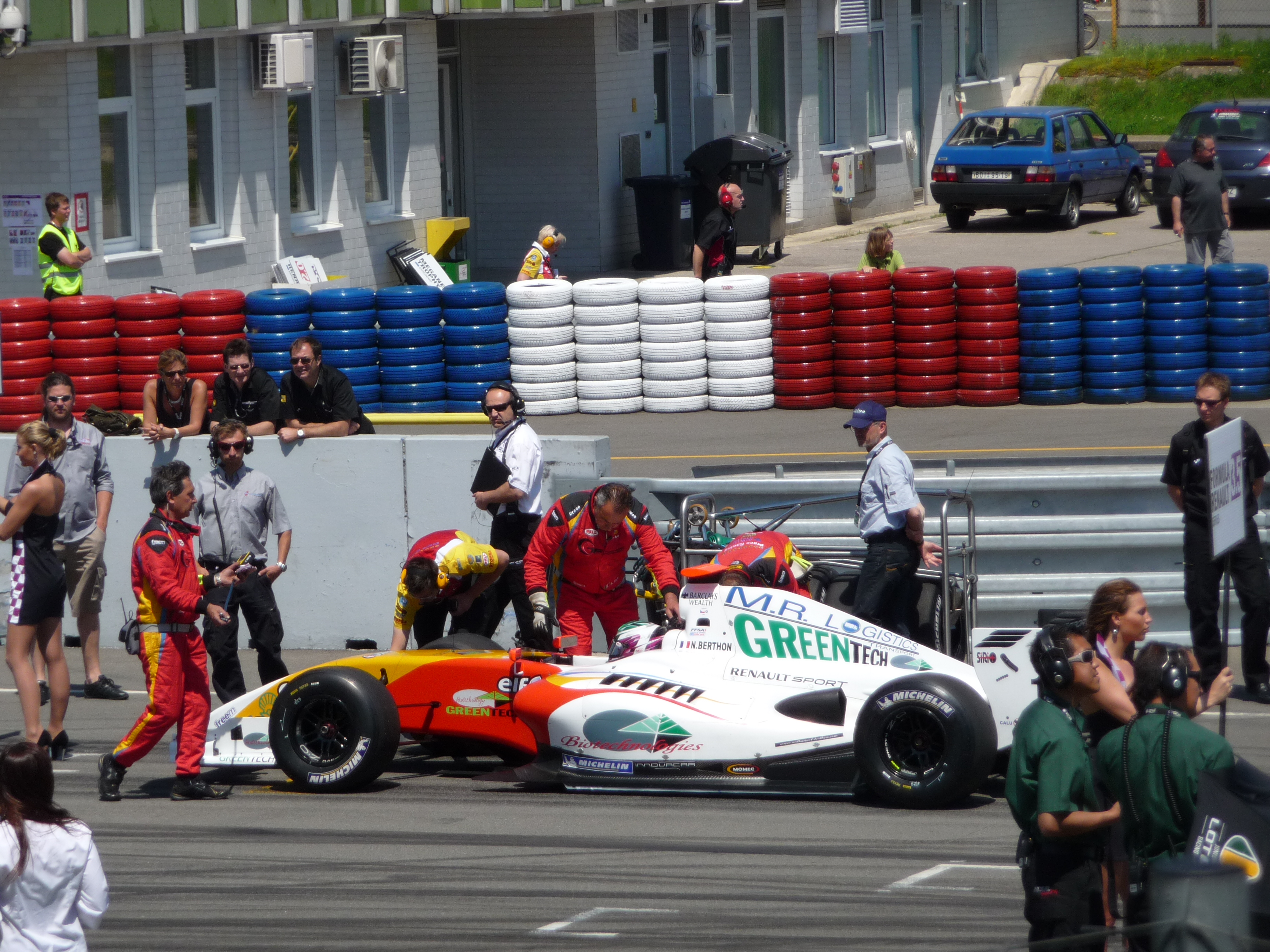 Nathanaël Berthon, Formula Renault 3.5 Series, 2nd race, 2010 Brno World Series by Renault -10-5-3-2◄►+2+3+5+10